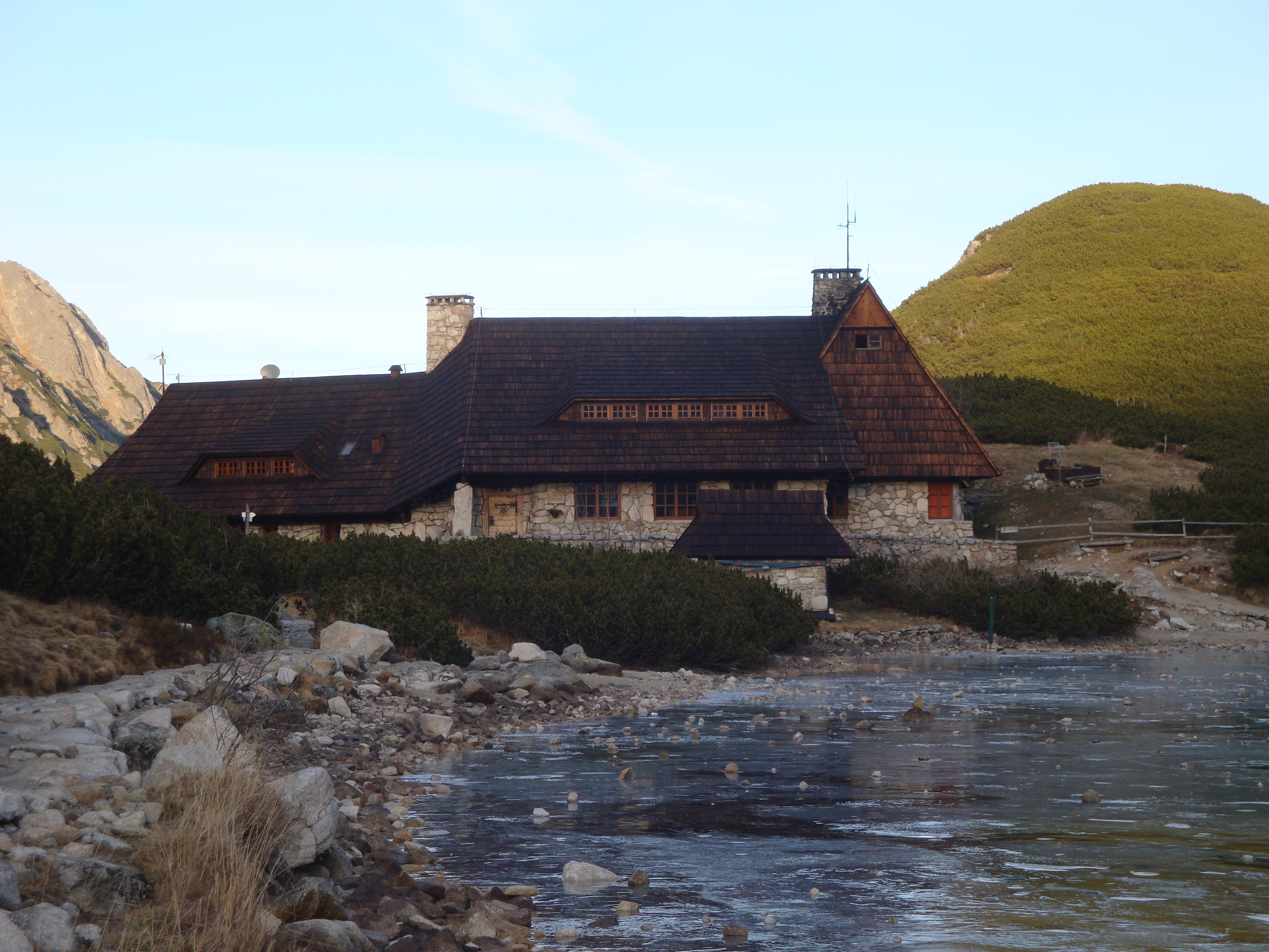 Mountain hut (hostel) in Doilina Piecu Stawów (Polish Tatra Mountains)